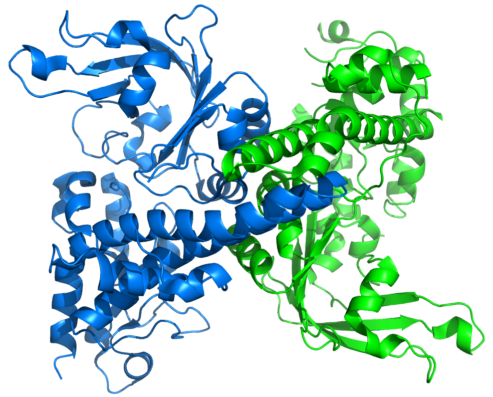 Cartoon representation of the EcoRII dimer structure. Image based on crystal structure PDB ID 1NA6